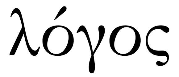 The famous Greek word logos — “word, speech, argument, ratio, etc.”